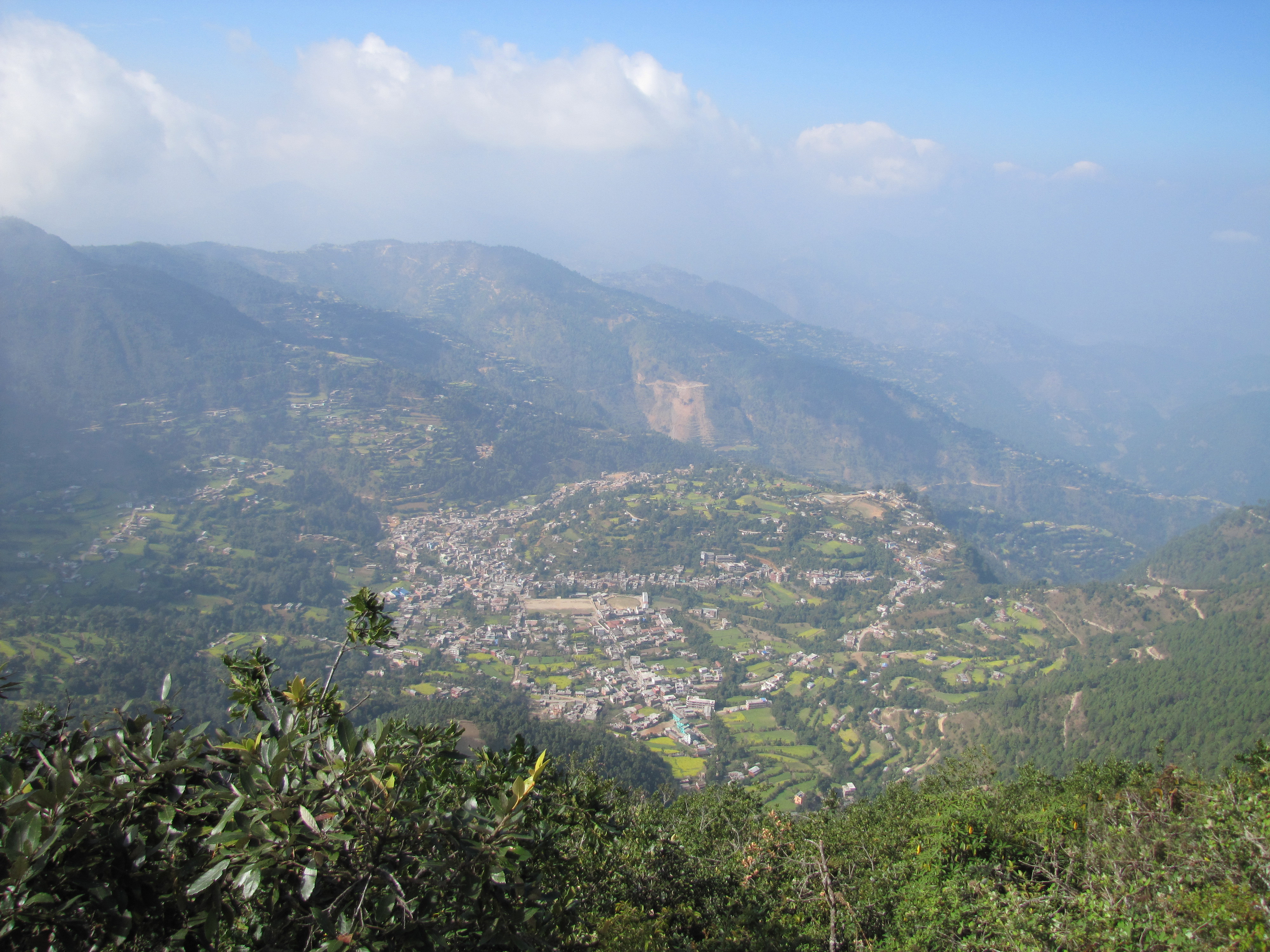 View of Tamghas